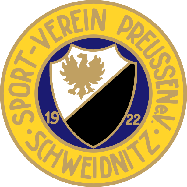 Logo of SV Preußen Schweidnitz, German football team.